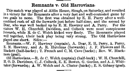 Report of Association Football match between the Remnants and Old Harrovians in October 1878.